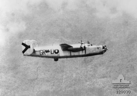 AWM caption : CONSOLIDATED LIBERATOR OF NO.24 SQUADRON, R.A.A.F..